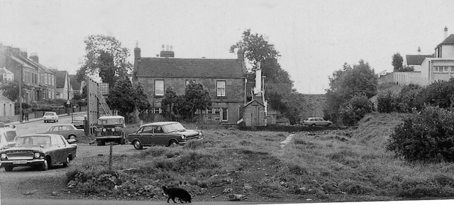 Site of Baldovan Station, near to Downfield, Dundee, Great Britain. View towards Dundee, along course of former Dundee West - Newtyle - Alyth Junction line (closed to passengers 10/1/55, goods 24/2/64). Presumably the railway ran through the gap between the trees - but that was 10 years earlier.